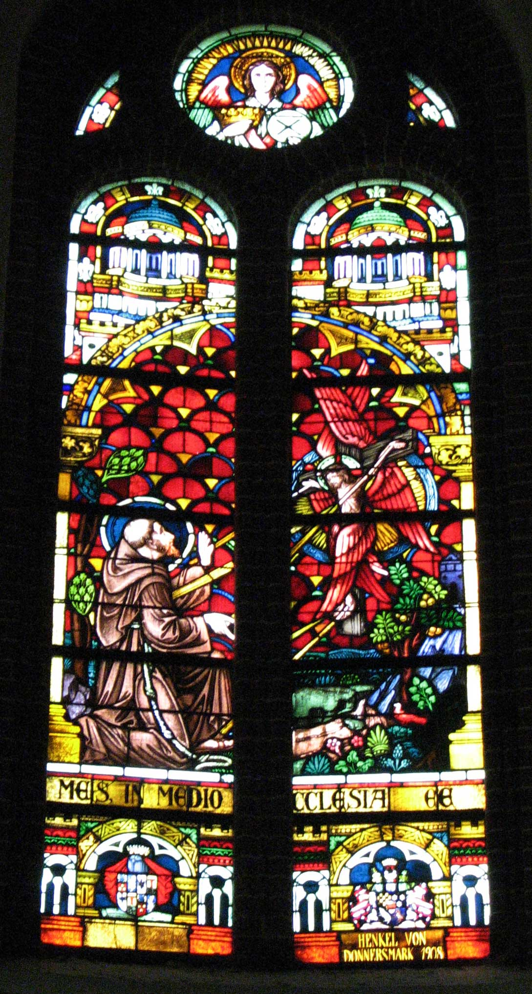 Stained glass window in the transept of the Basilica of St. Louis King in Katowice Poland, XX century - Saint Francis of Assisi